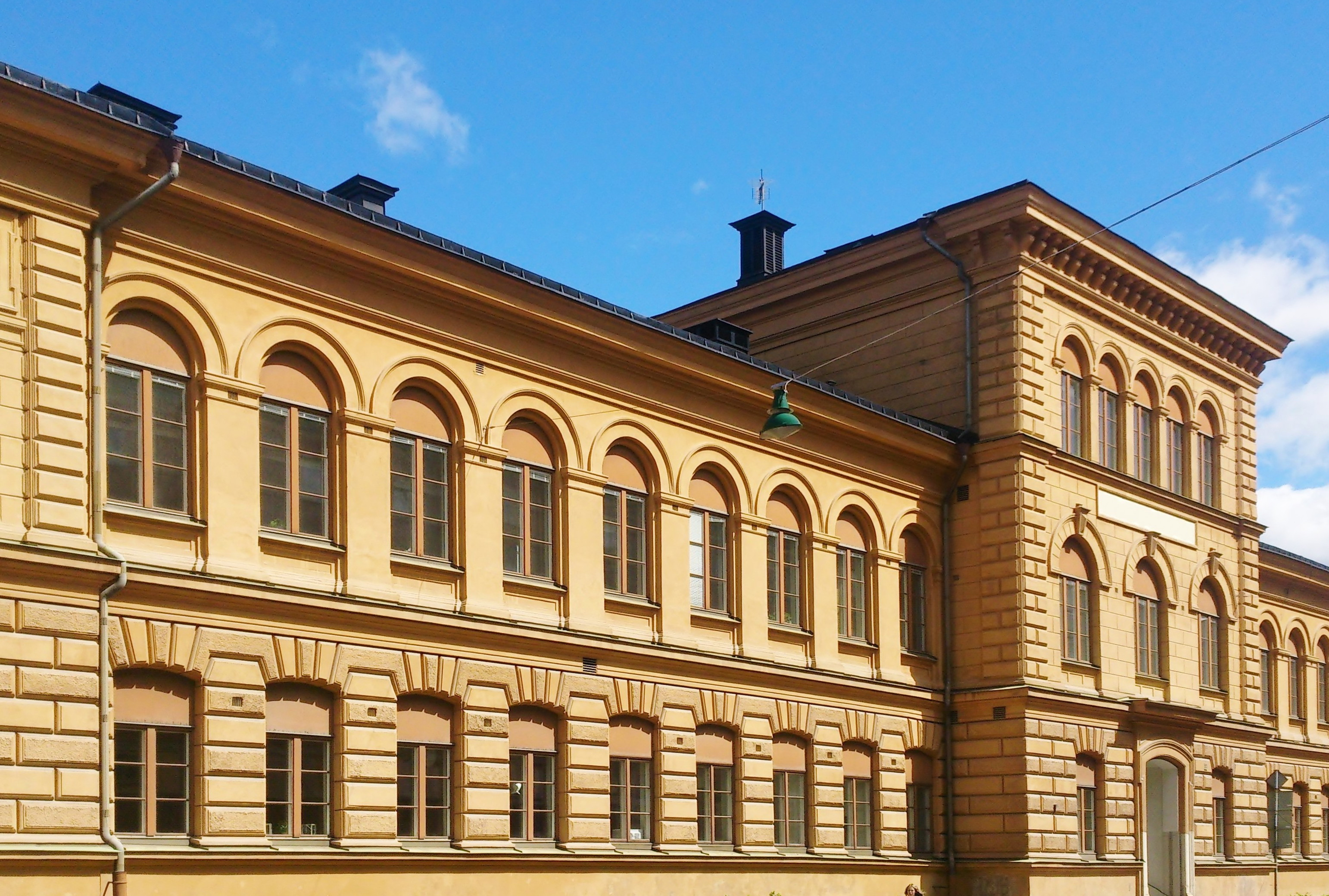 Raoul Wallenbergskolan, Kungsgatan 18 in Uppsala. June 18, 2014